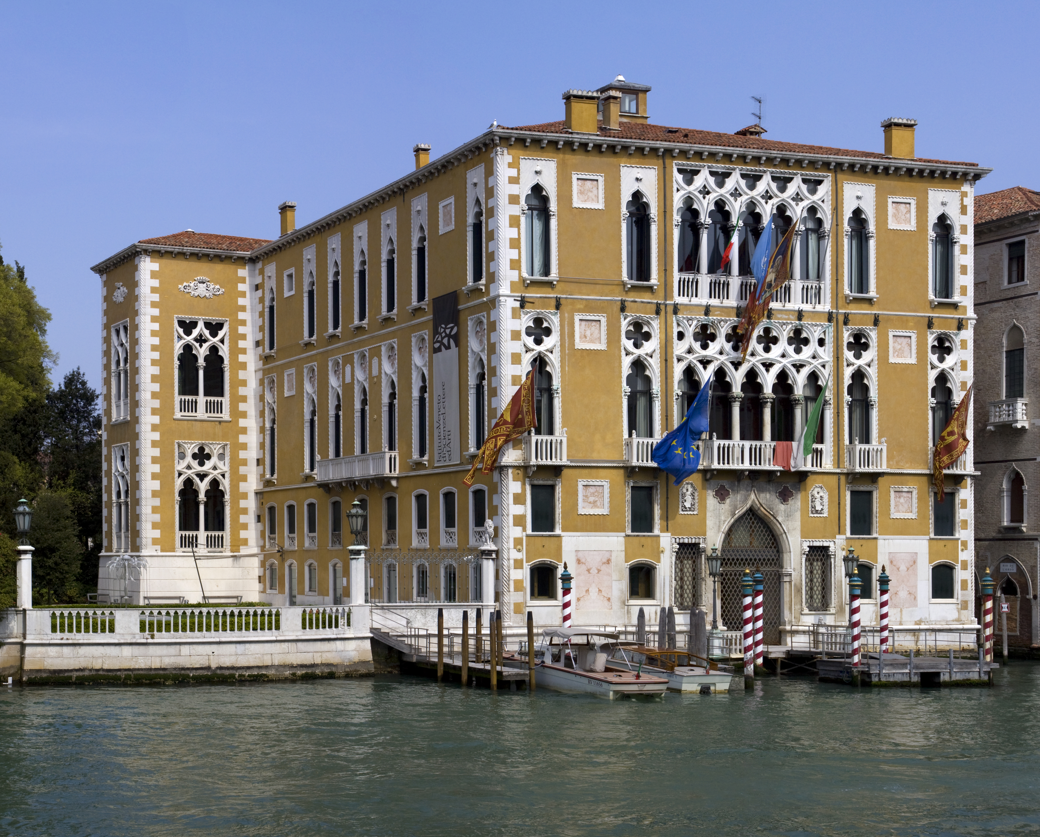 The Palazzo Cavalli-Franchetti in Venice, Italy alongside the Grand Canal.